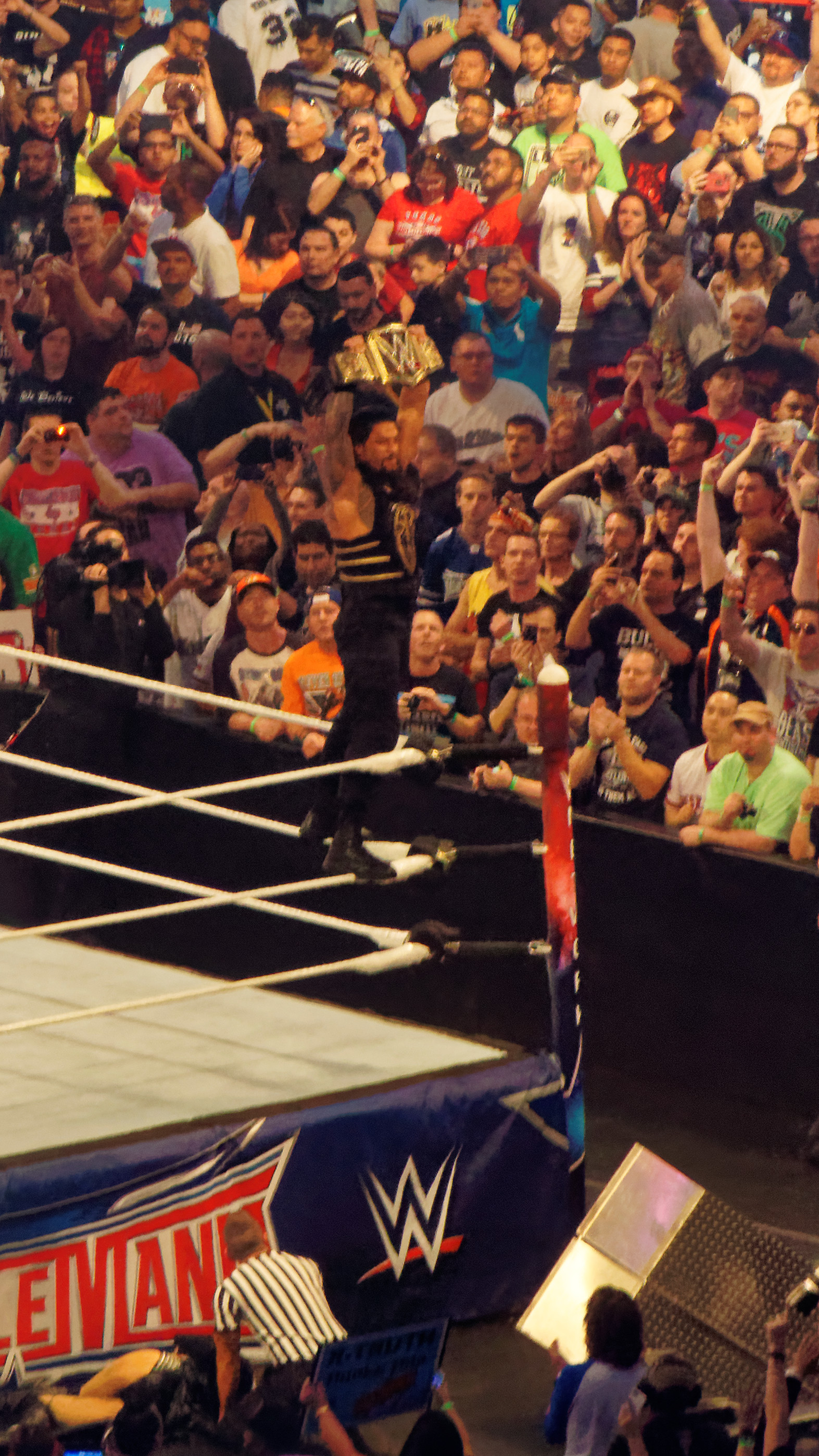 WrestleMania 32 was the thirty-second annual WrestleMania professional wrestling pay-per-view (PPV) event produced by WWE. It took place on April 3, 2016, at AT&T Stadium in Arlington, Texas. Twelve matches were contested on the card (with three matches occurring on the WrestleMania Kickoff pre-show - two airing live on the USA Network, which televised the second hour of the pre-show). Roman Reigns def. (pin) Triple H (c) (in 27:10) For : WWE World Heavyweight Championship (title change) Rating : ***1/4